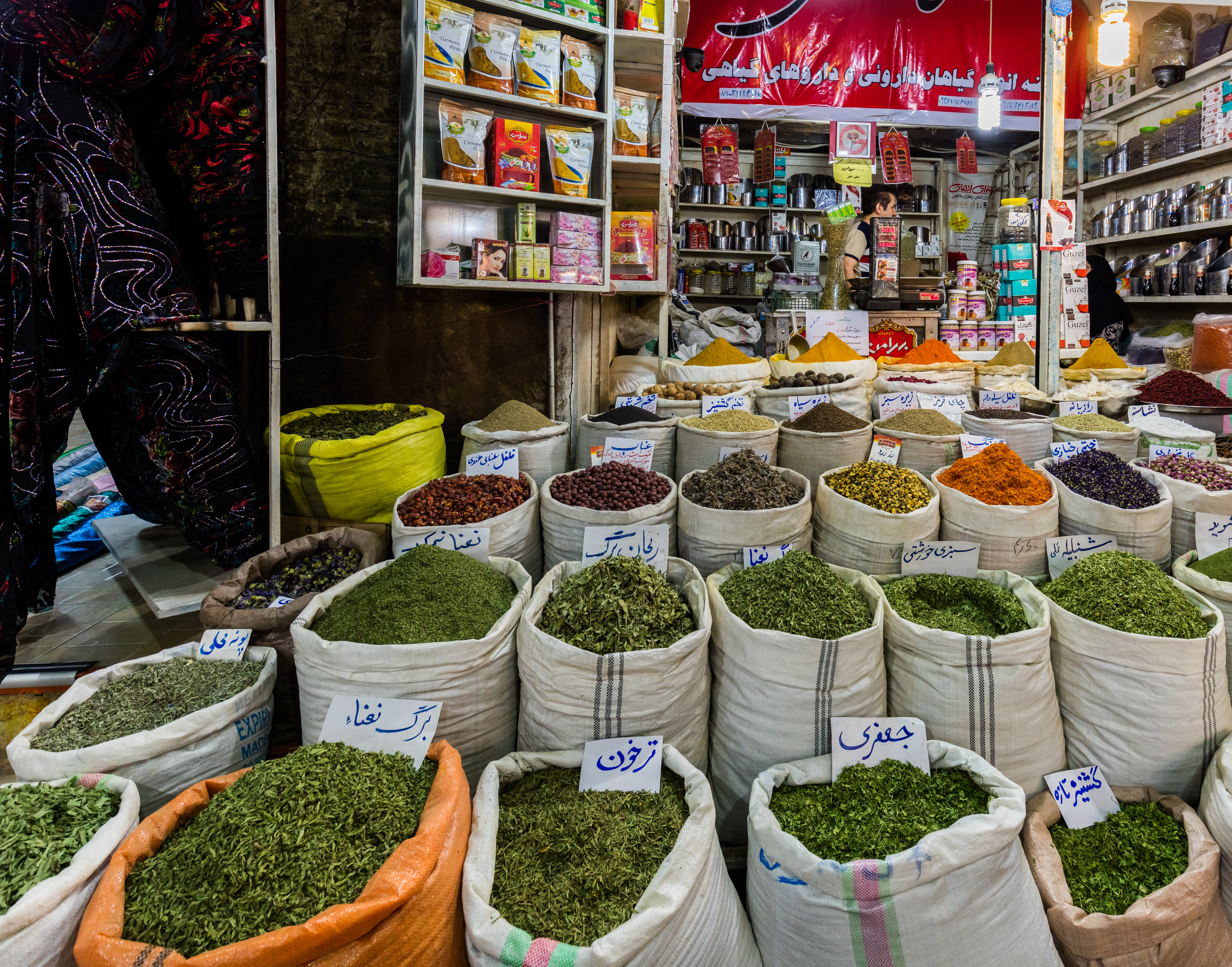 Vakil Bazaar, Shiraz, Iran